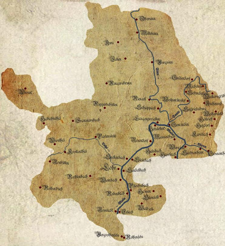 Management area of the bavarian Bezirksamt Lohr in 1890. Traced from the Topographischer Atlas vom Königreiche Baiern diesseits des Rhein Blatt: 10. Orb and Blatt: 17. Aschaffenburg